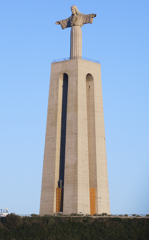 Francisco Franco, Cristo Rei, Lisbon, 2013